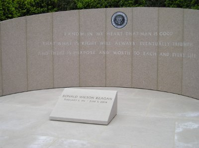 Ronald Reagan's Tomb at the Ronald Reagan Presidential Library